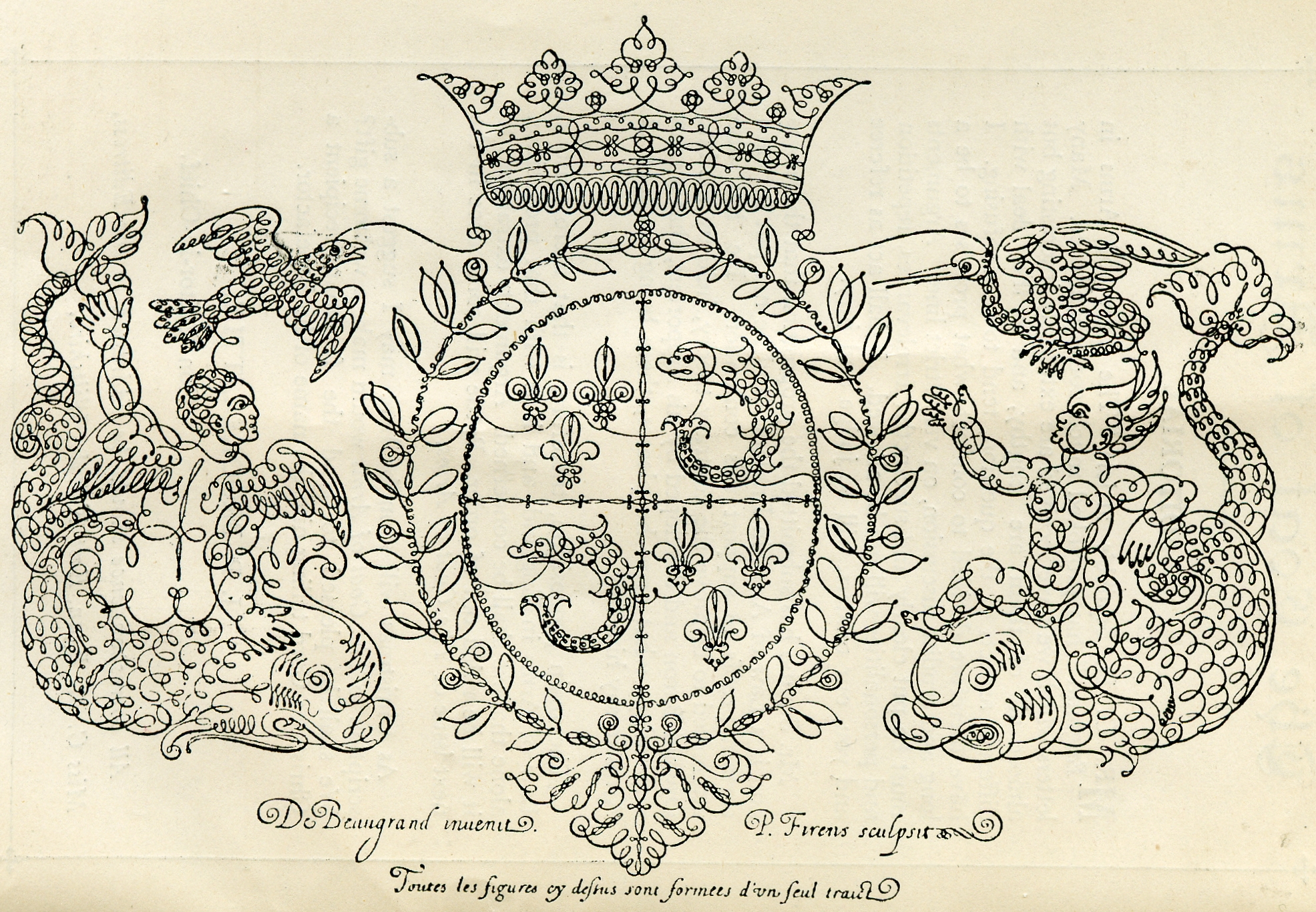 This is a lineographic representation of the arms of the Dauphin of France. The arms were created by Jean de Beaugrand from his Panchrestographie published in Paris in 1604. This image was reproduced in George Hanton's French Lineography published in 1927.